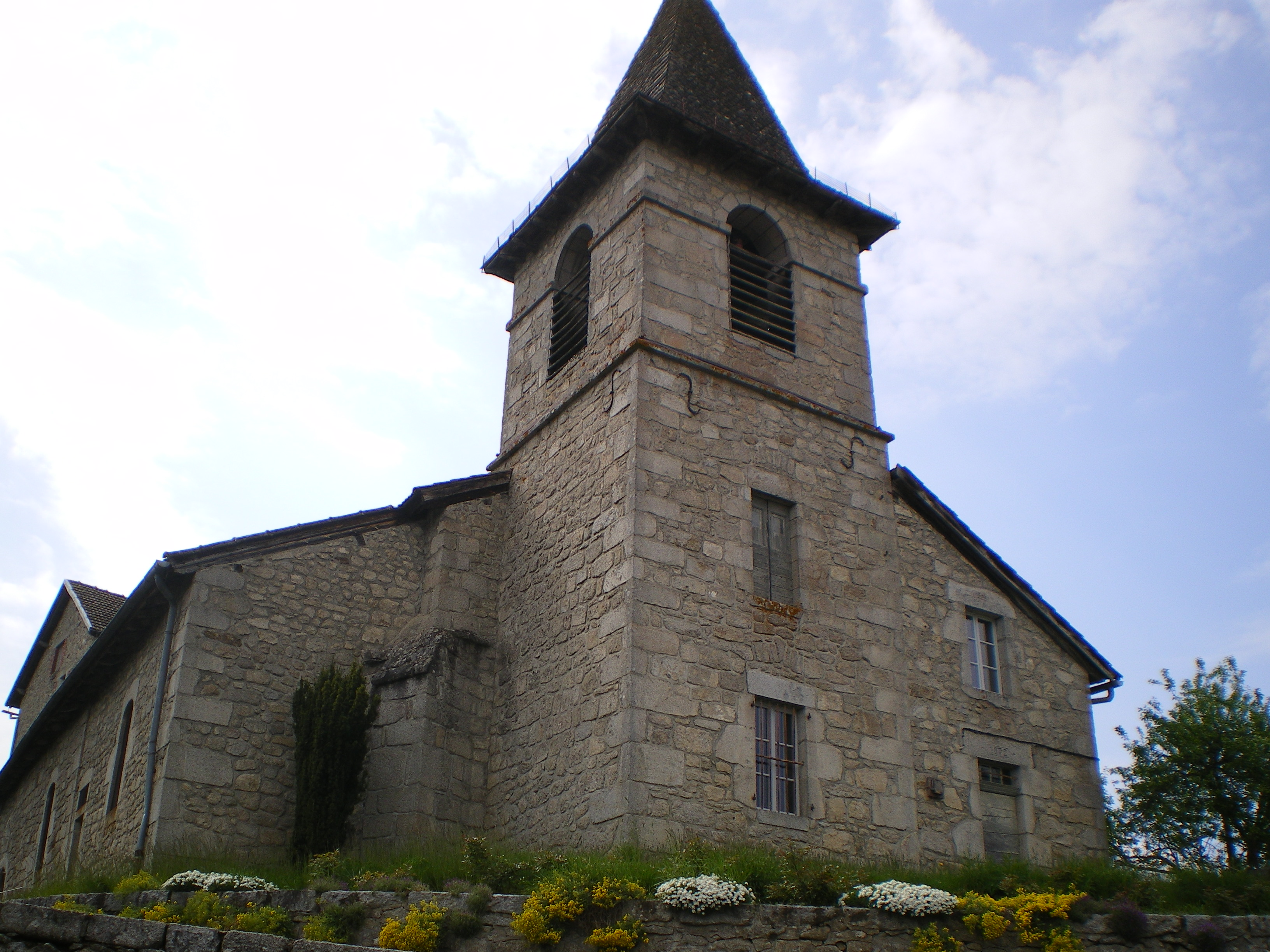 Parlan church, Cantal, France